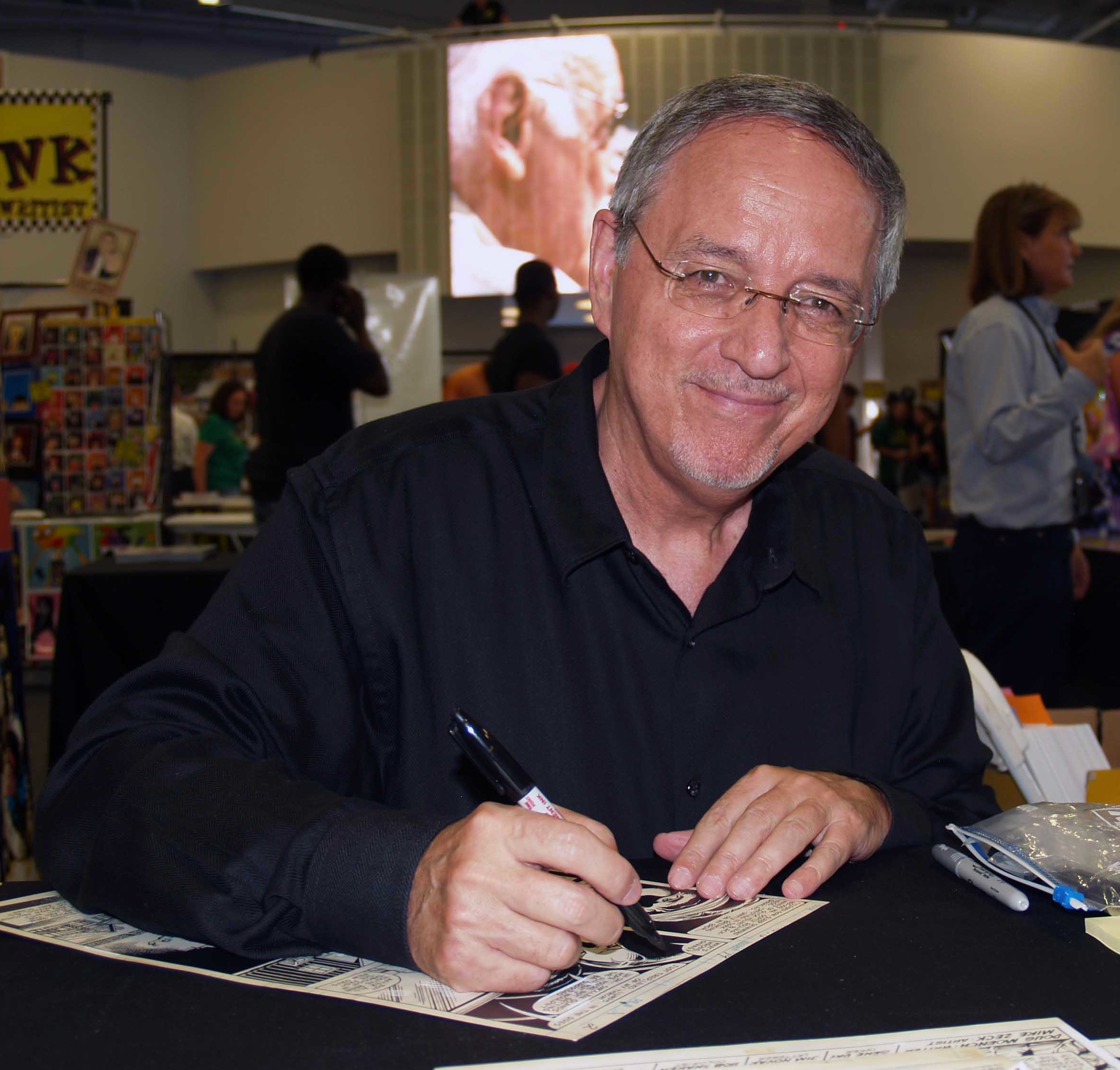 Comics artist Mike Zeck signing autographs on June 28, 2013, at the 2013 Wizard World New York Experience Comic Con, at Pier 36 in Manhattan. This photo was created by Luigi Novi. It is not in the public domain, and use of this file outside of the licensing terms is a copyright violation.